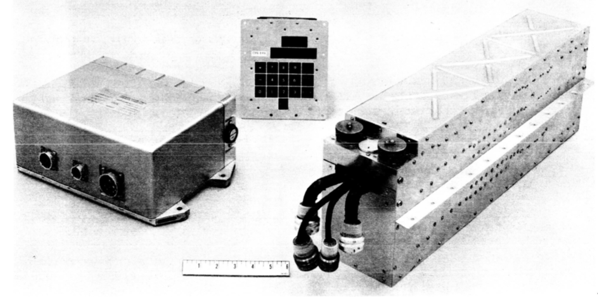 Photo of Apollo Lunar Module Abort Guidance System components